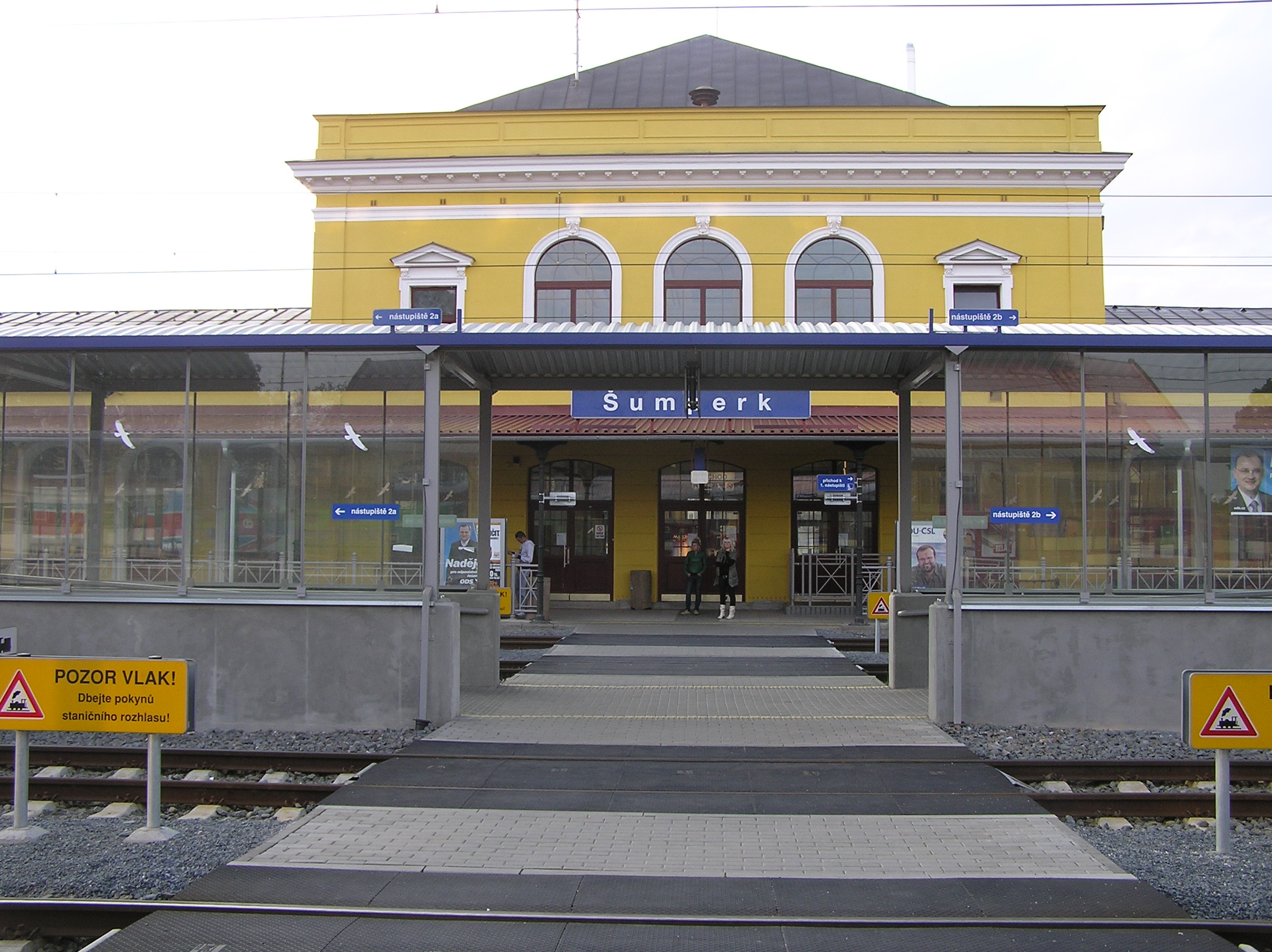 Railway station in Šumperk, Olomouc Region, Czech Republic